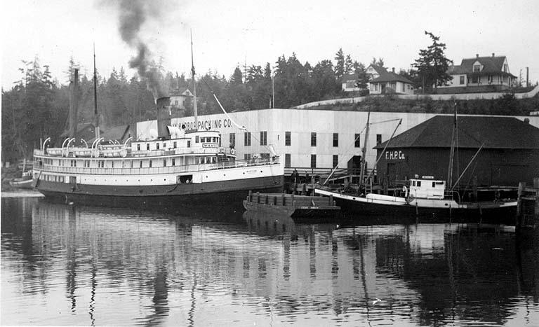 From John Cobb field notebook: Salmon cannery of Friday Harbor Packing Co., Friday Harbor, Wa. 1915 Shows the Puget Sound Navigation Co.s steamer WHATCOM at dock. Subjects (LCTGM): Canneries--Washington (State)--Friday Harbor Subjects (LCSH): Friday Harbor Packing Company; Salmon canning industry--Washington (State)--Friday Harbor; Whatcom (Steamship); Steamboats--Washington (State)--Friday Harbor